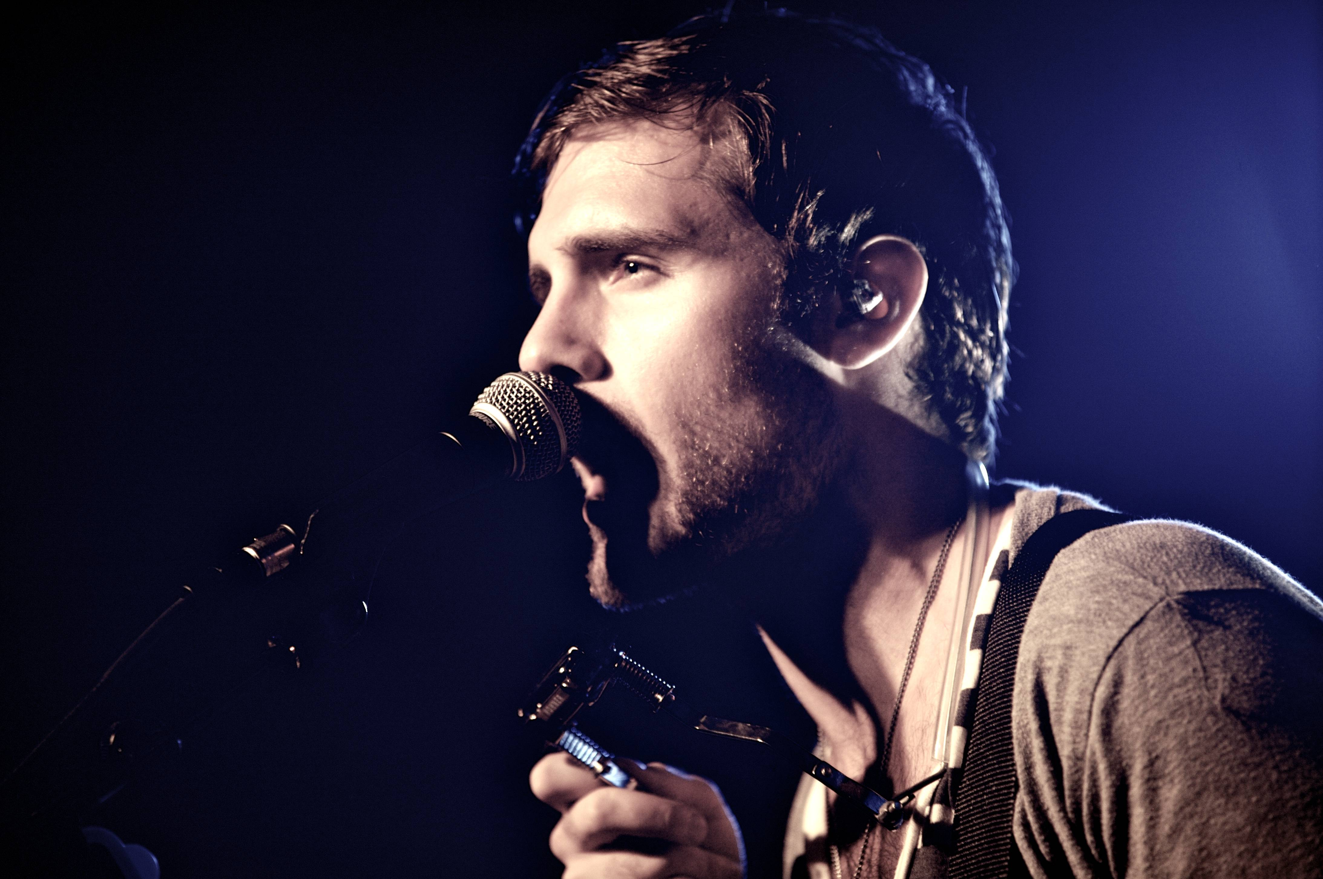 Paper Route performing live at Cannery Ballroom, Nashville.